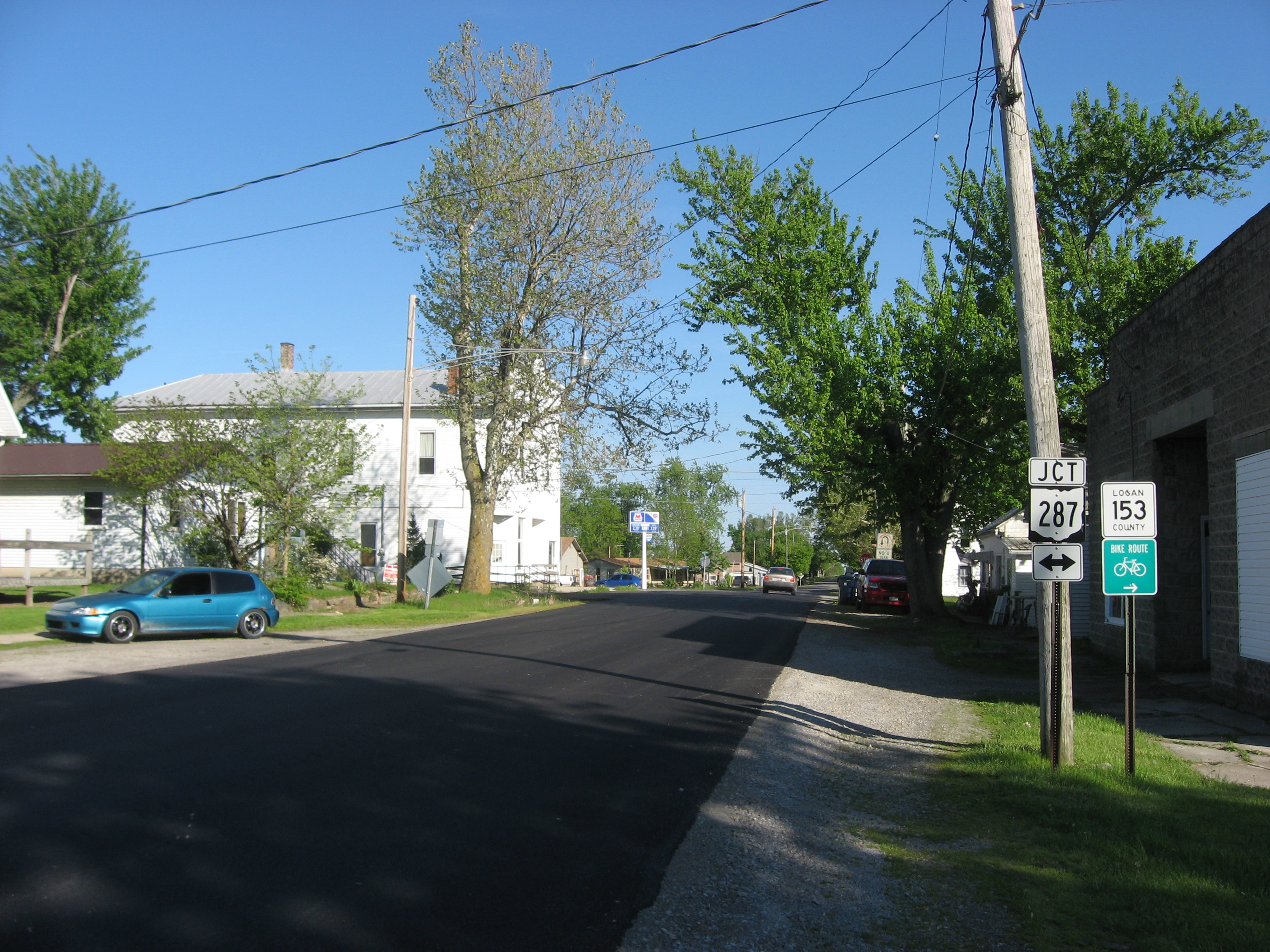 Southeast along County Road 153 in central Middleburg, Ohio, United States.